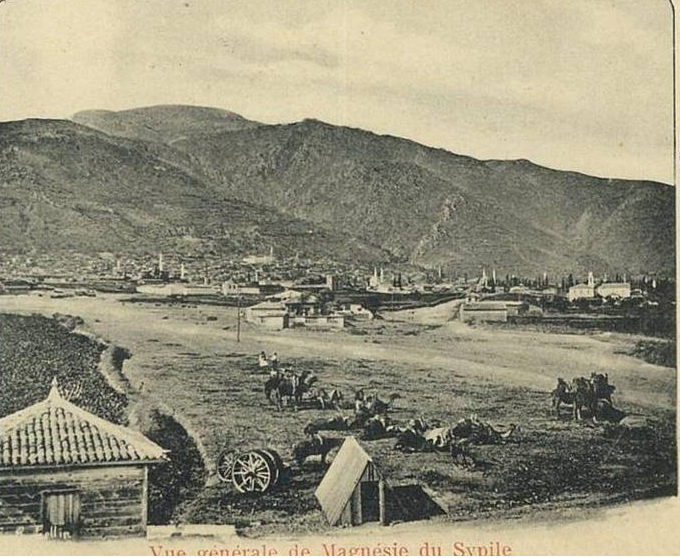 General view of Manisa, Turkey before the fire of 1922. 19th or early 20th century postcard.